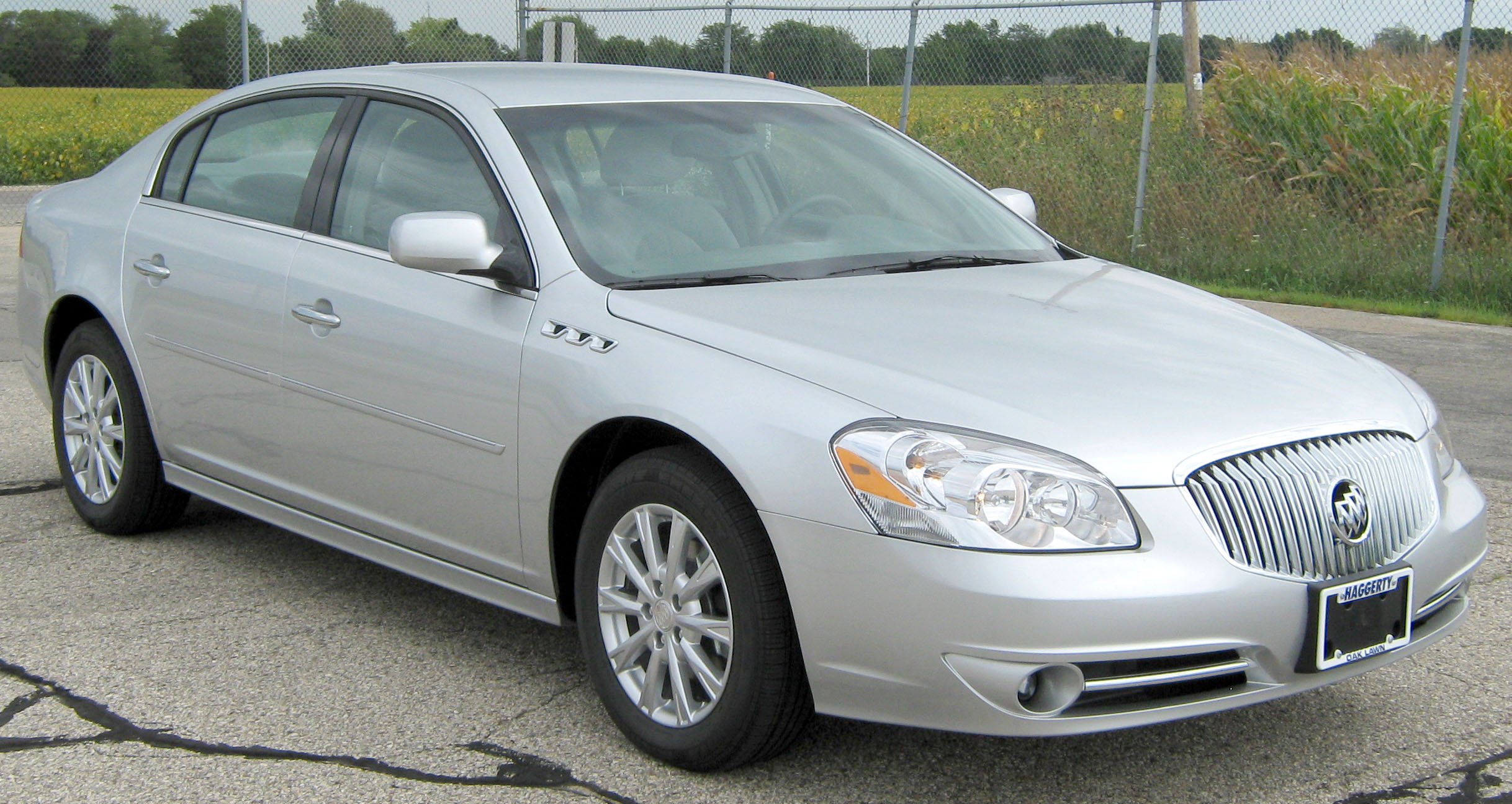 2011 Buick Lucerne photographed in USA.